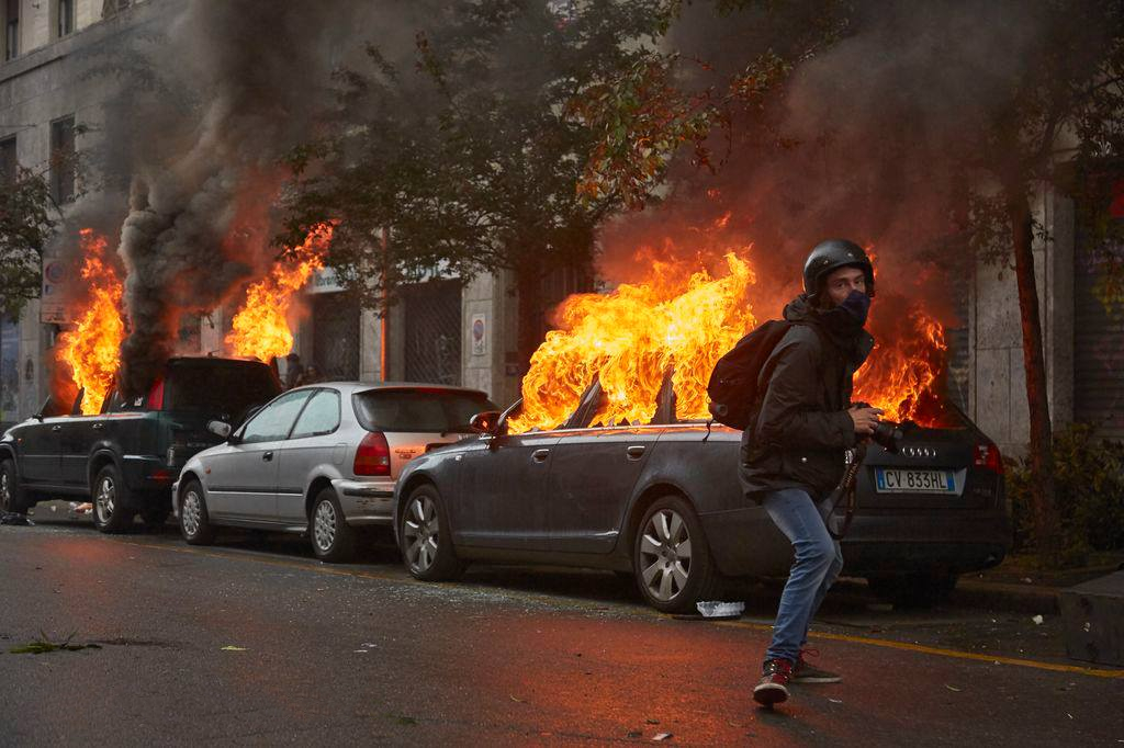 Black Bloc at Milano for the opening of Expo 2015